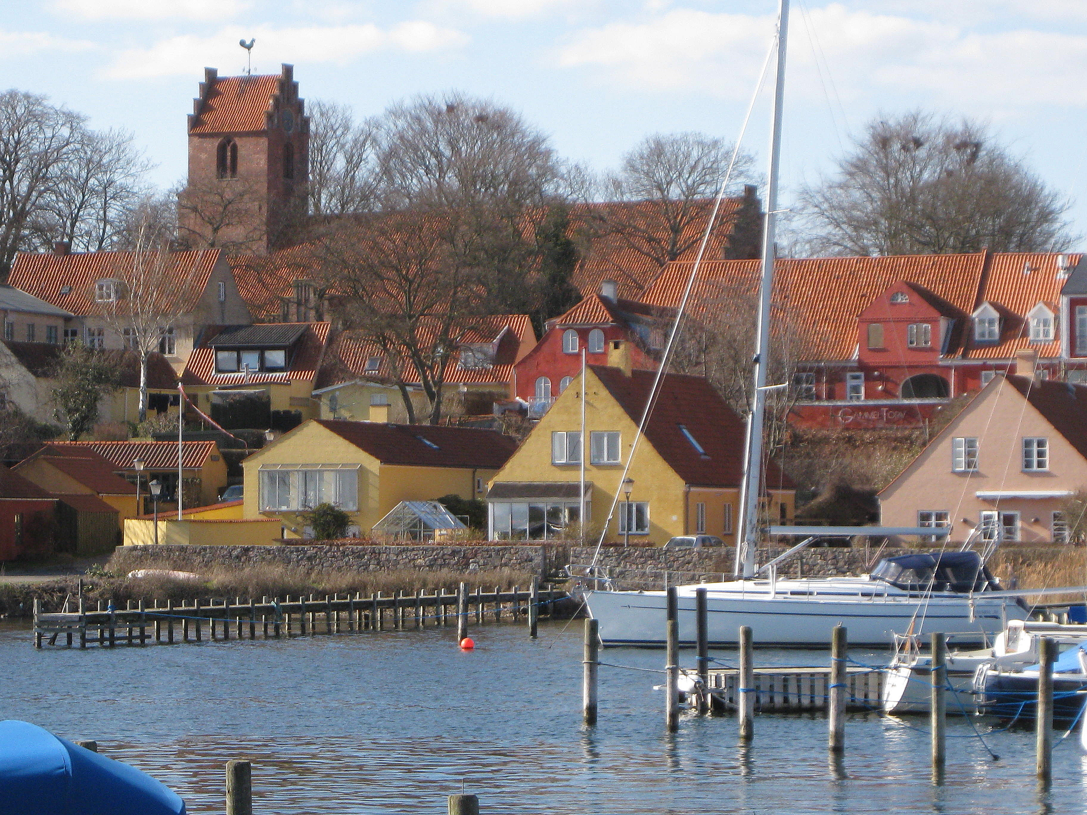 View from the habour at the town centre of Skælskør. The town is located in West Zealand, Denmark.